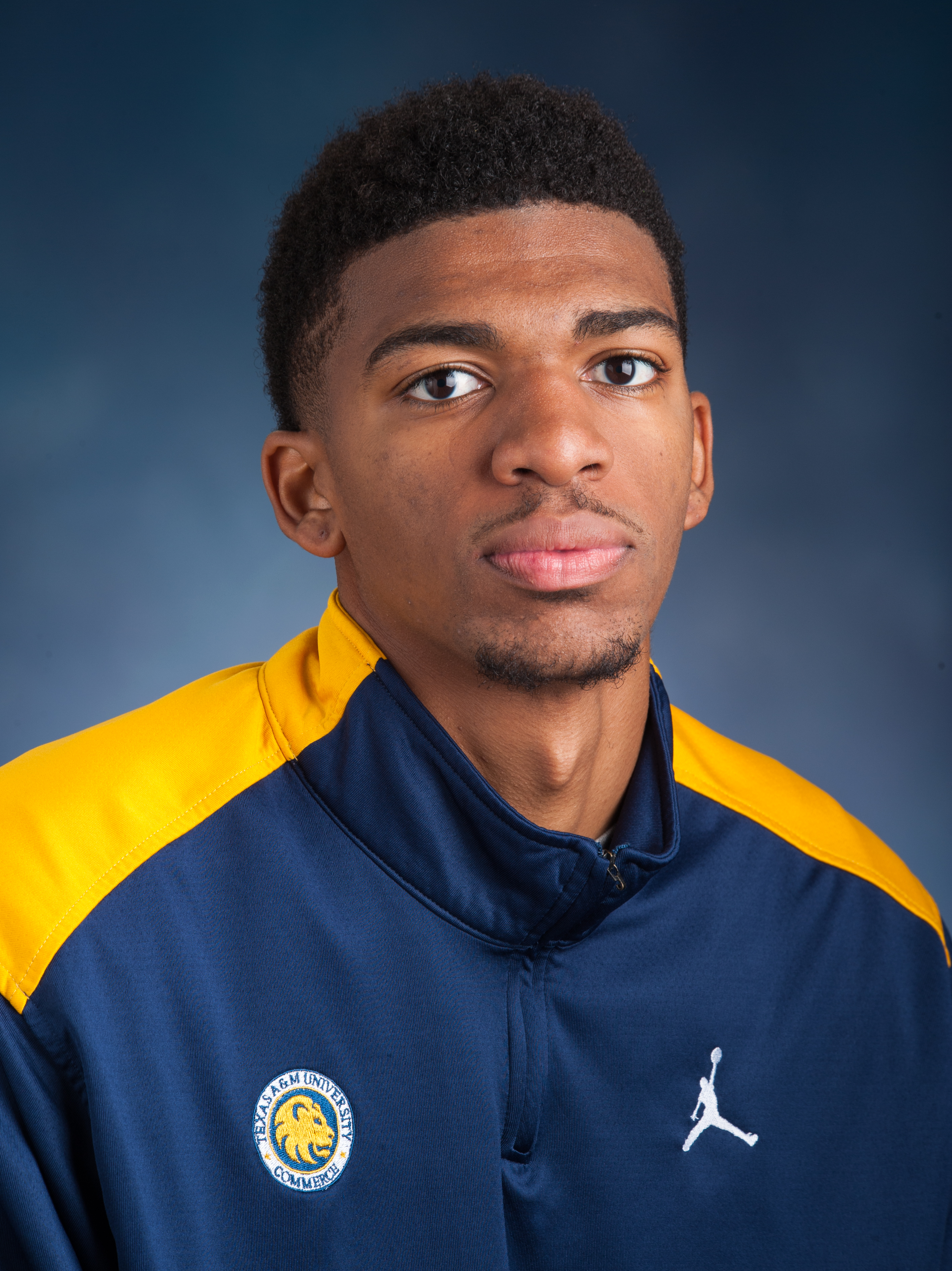 Devondrick Walker, 2013–14 Texas A&M–Commerce Lions men's basketball team